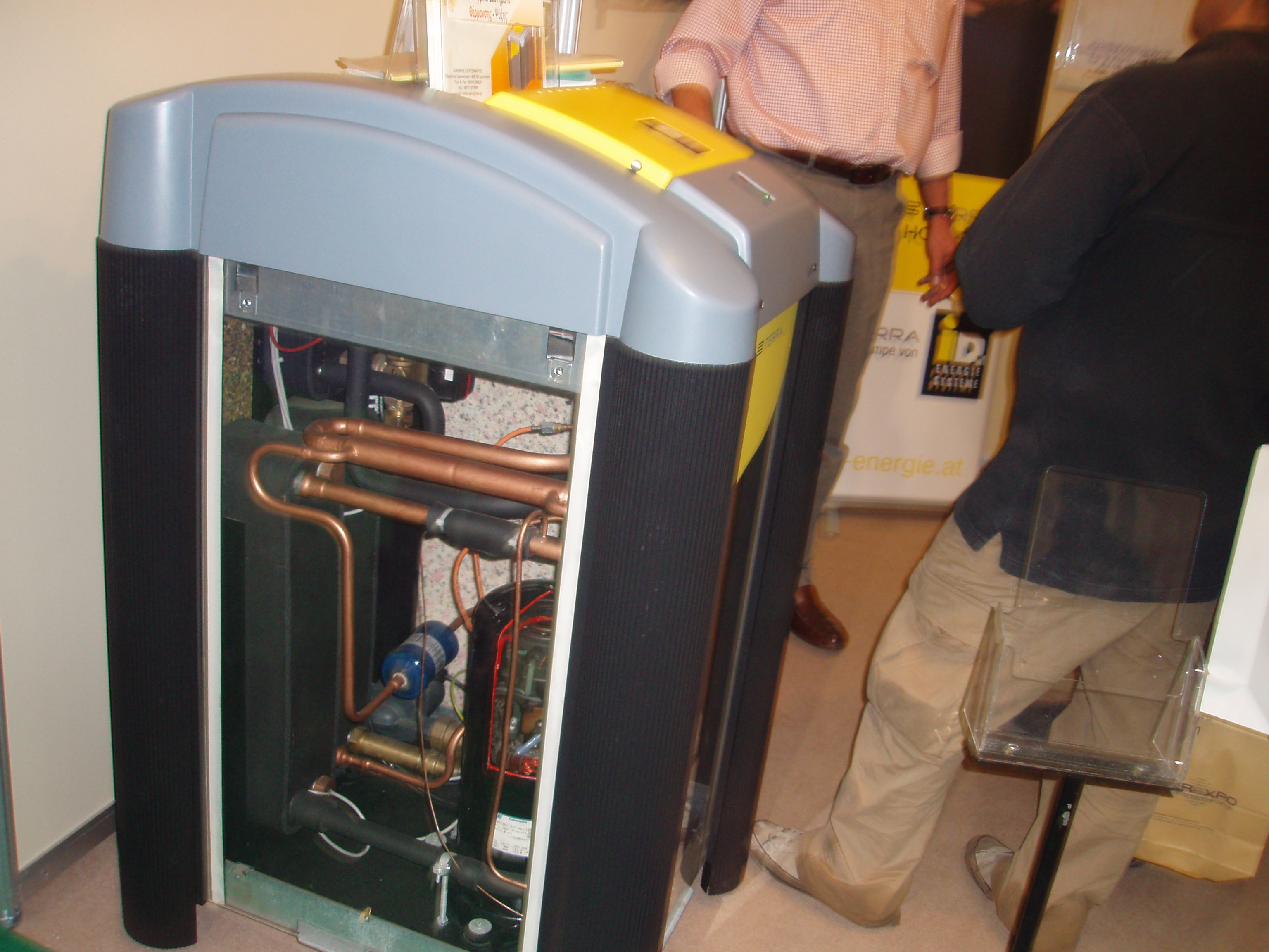 Geothermal heat pump